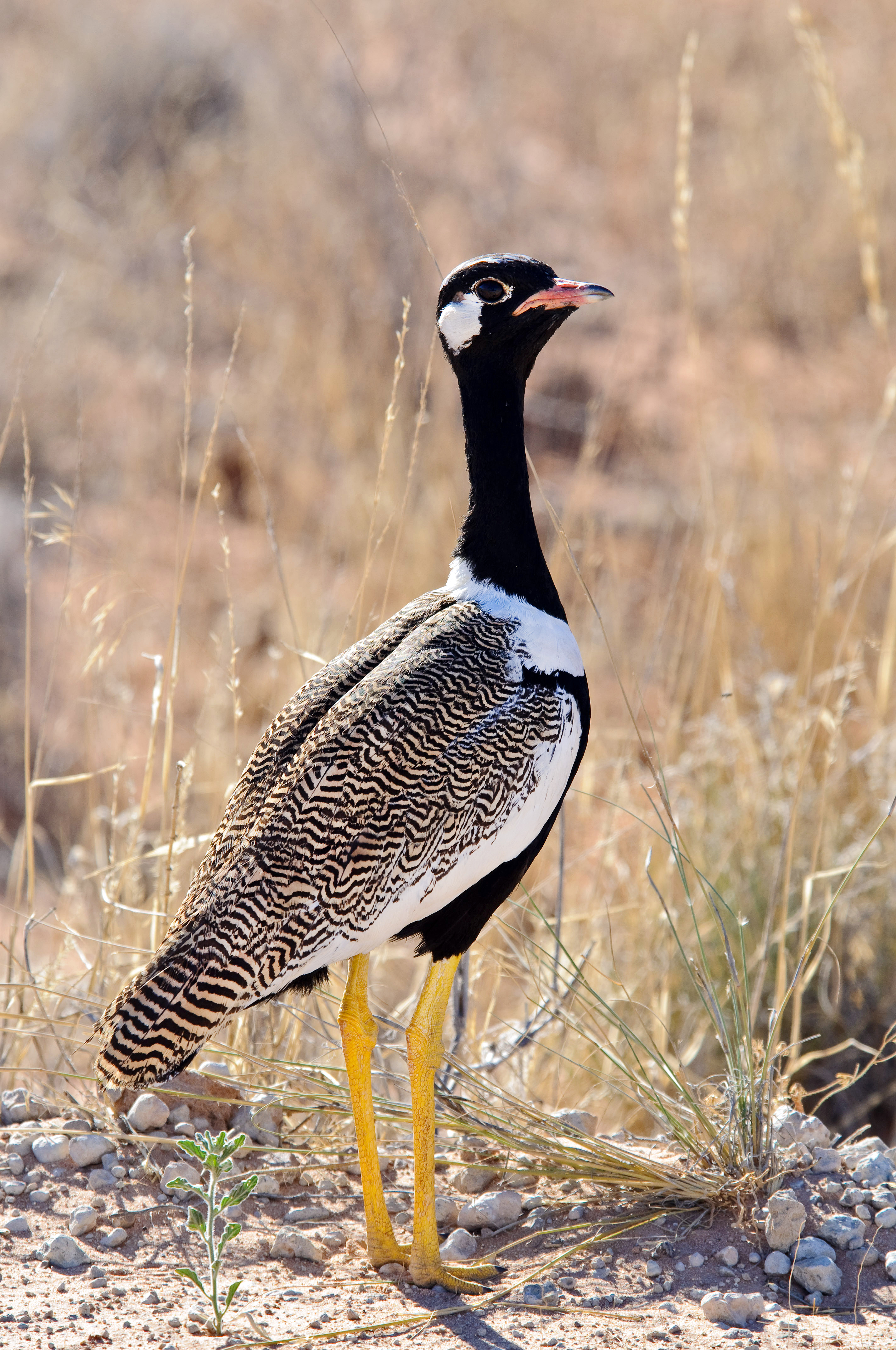 A White-quilled Bustard (also known as Northern Black Korhaan) at Kalahari Gemsbok National Park, South Africa